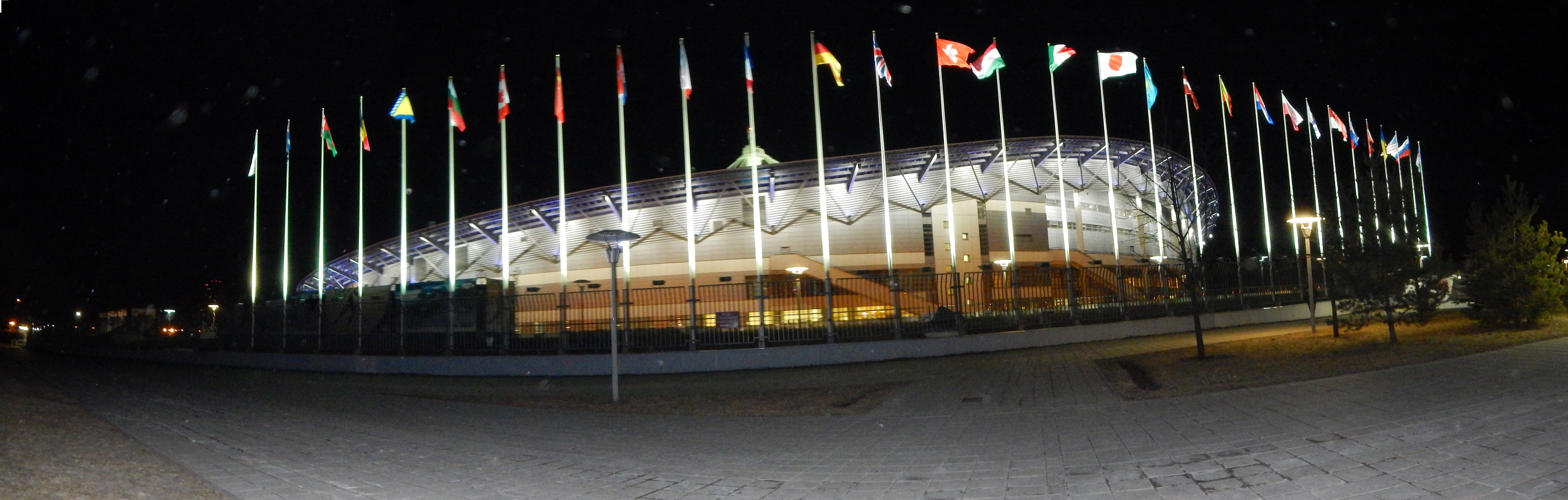 Krylatskoe Sport Palace during 2015 World Short Track Speed Skating Championships